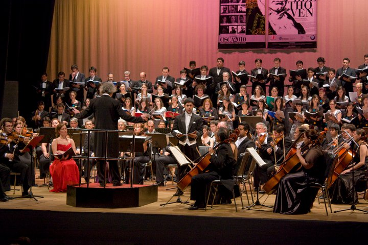 Tenor José Mongelós singing Beethoven's Ninth Symphony.